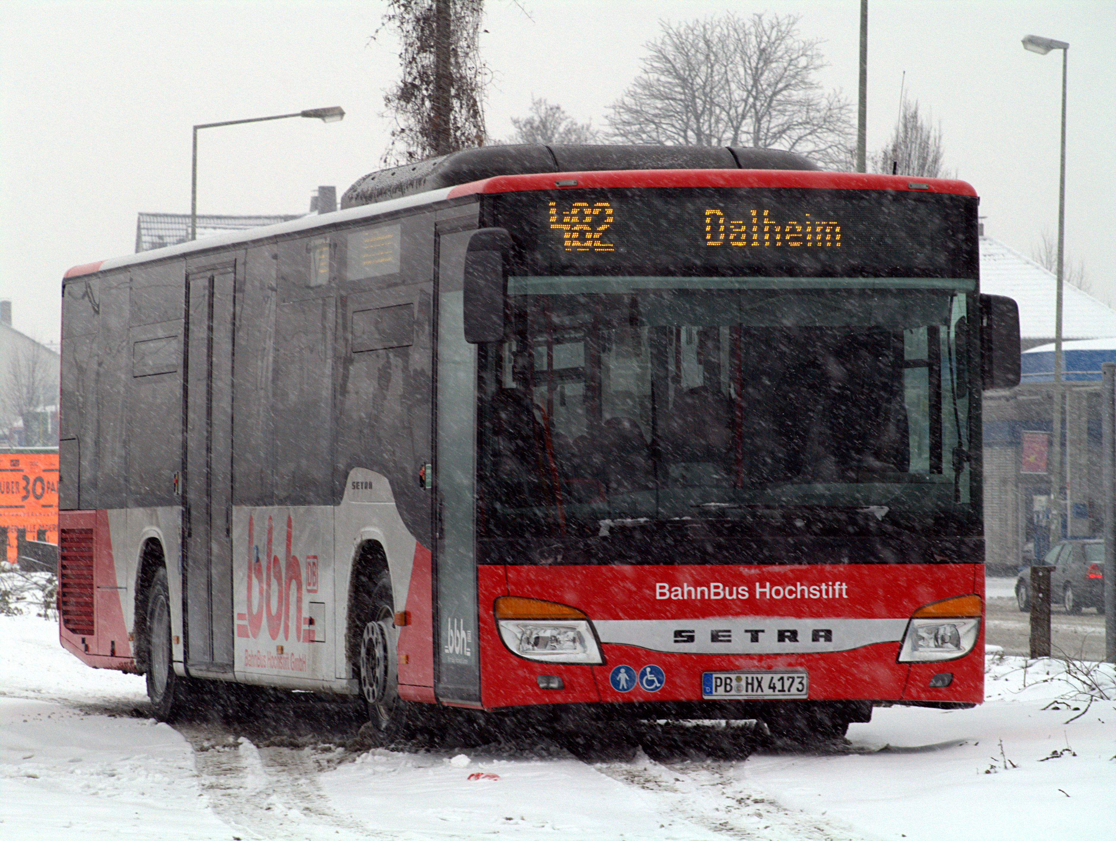 A Setra S 415 NF of the operator BahnBus Hochstift (#4173), spotted in Paderborn bus terminal.